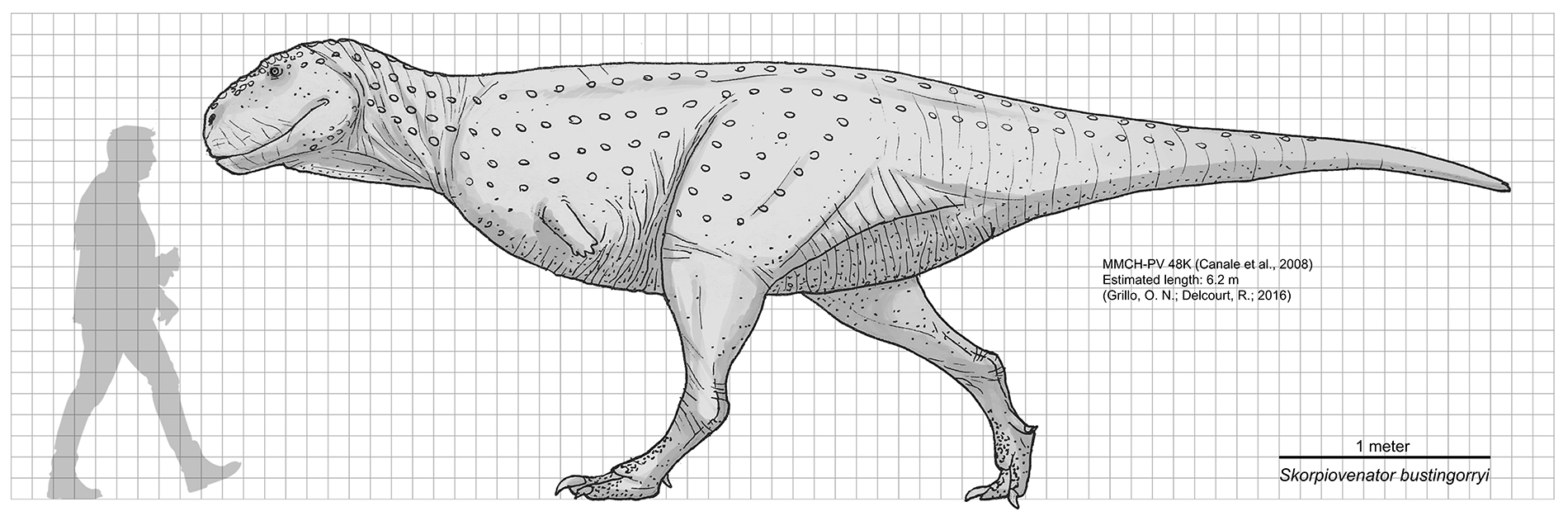 Scale diagram of Skorpiovenator bustingorryi.